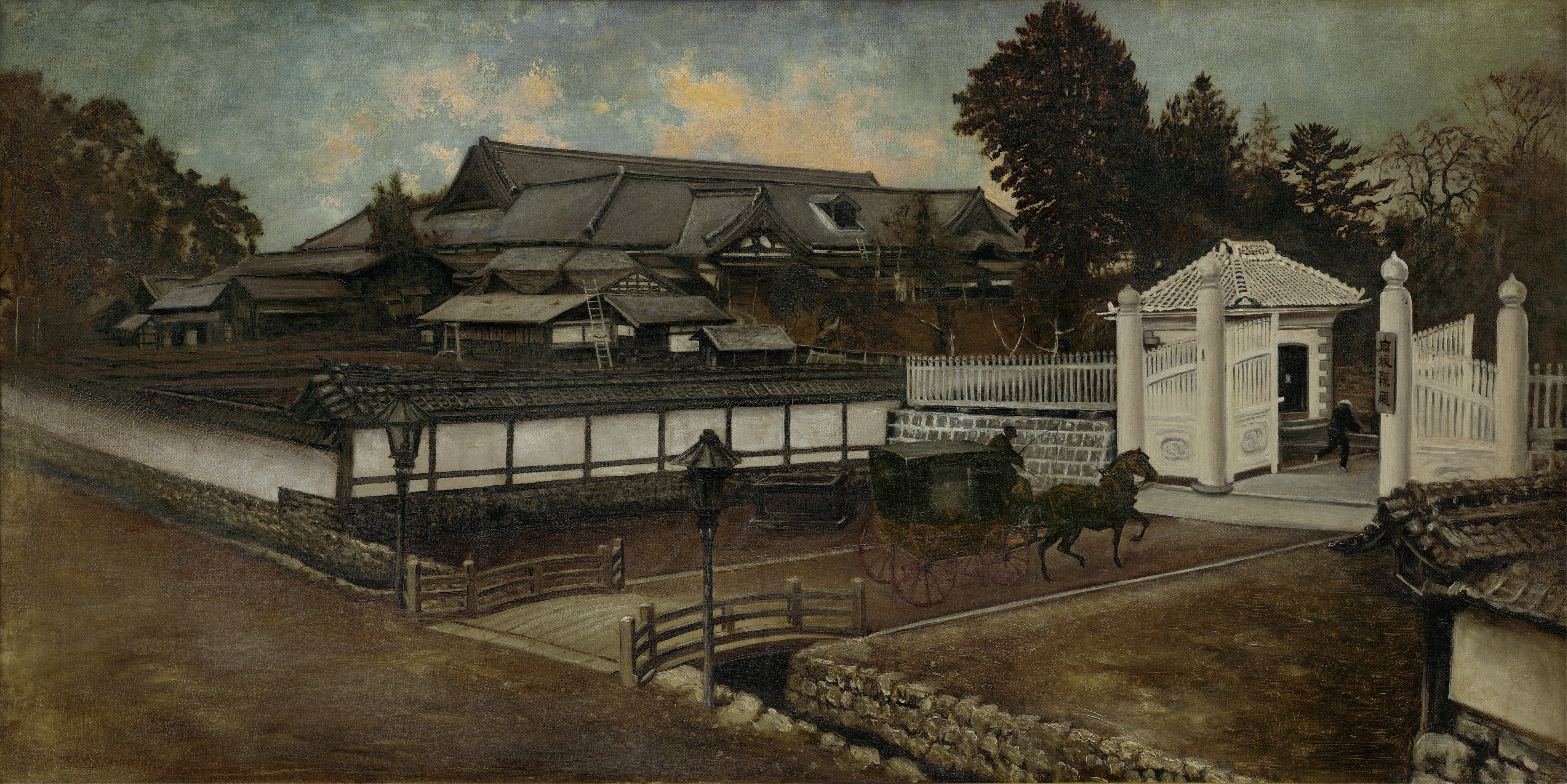 Before the Gate of the Miyagi Prefectural Office by Takahashi Yuichi, Miyagi Museum of Art, Sendai, Miyagi, Japan